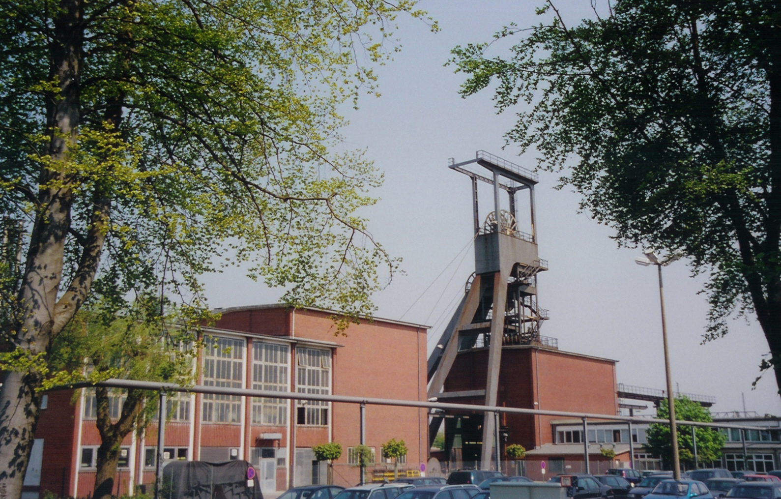 Coal mine of the DSK Anthrazit GmbH in Mettingen, Kreis Steinfurt, North Rhine-Westphalia, Germany. The building in the center ist the winding tower.